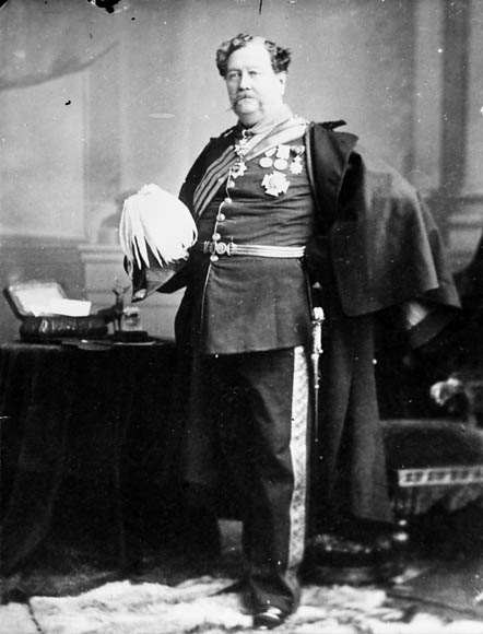 Major-General Richard Hebden O'Grady-Haly, Commander of Canadian Militia